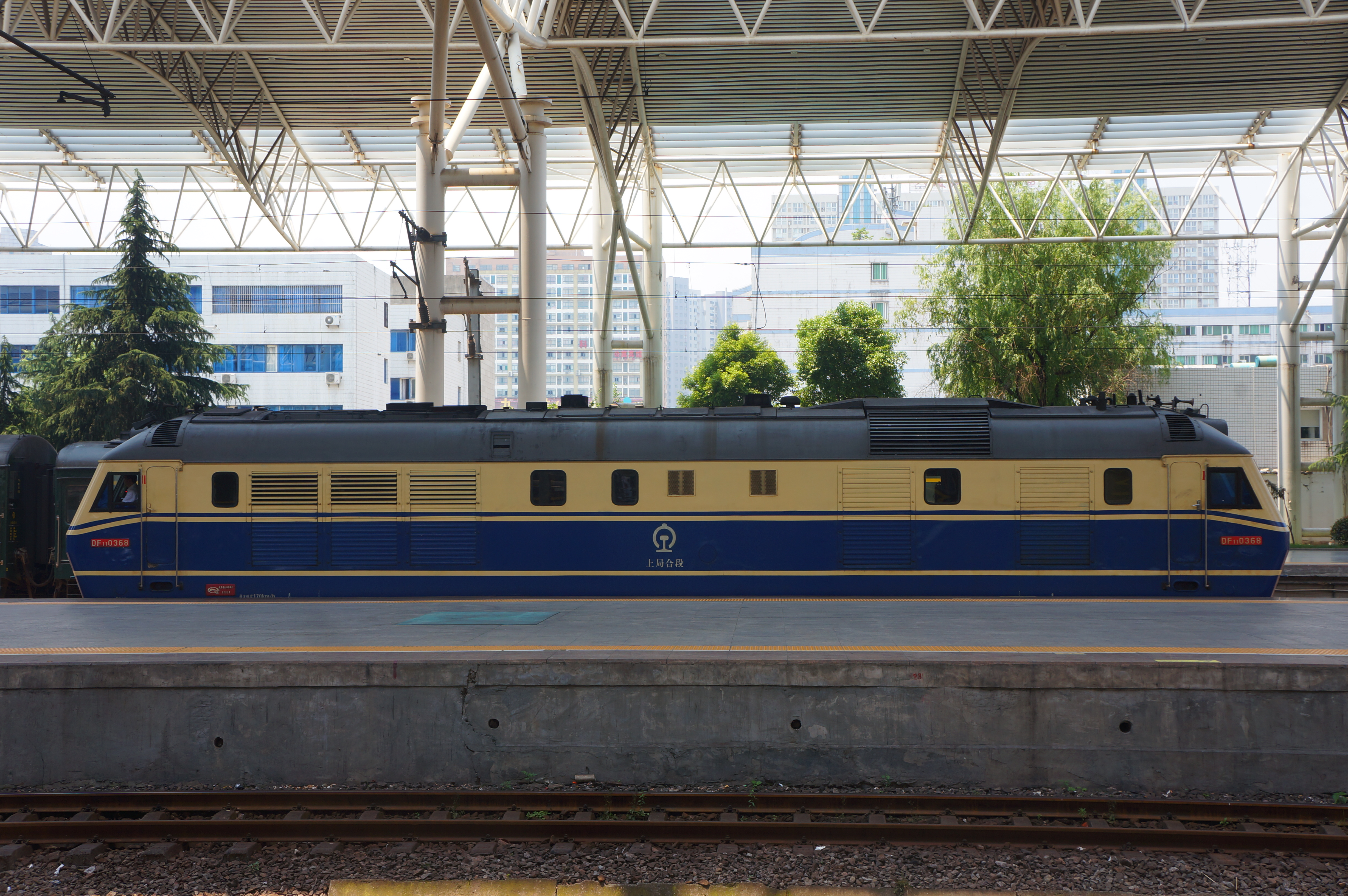 201705 DF11-0368 for K1029 at Hefei Station, I thought I miss to catch it!